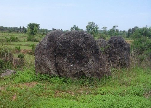 Menhir's at Dannanapeta Megalithic site, Amudalavalasa, Srikakulam district